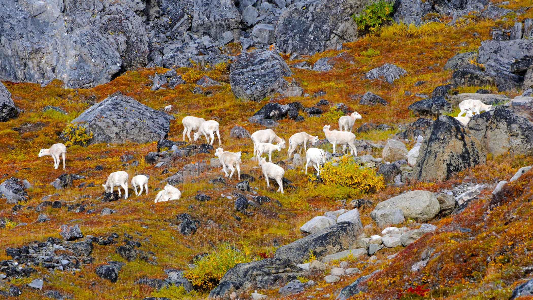 Gates of the Arctic National Park and Preserve photos by Zak Richter/NPS